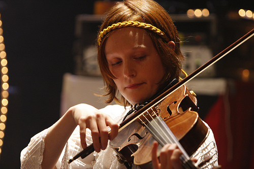 Abi Fry playing with British Sea Power (website) at Le Café de la Danse - Paris XIème - February 10, 2008 Sur l'aimable invitation de Beggars France